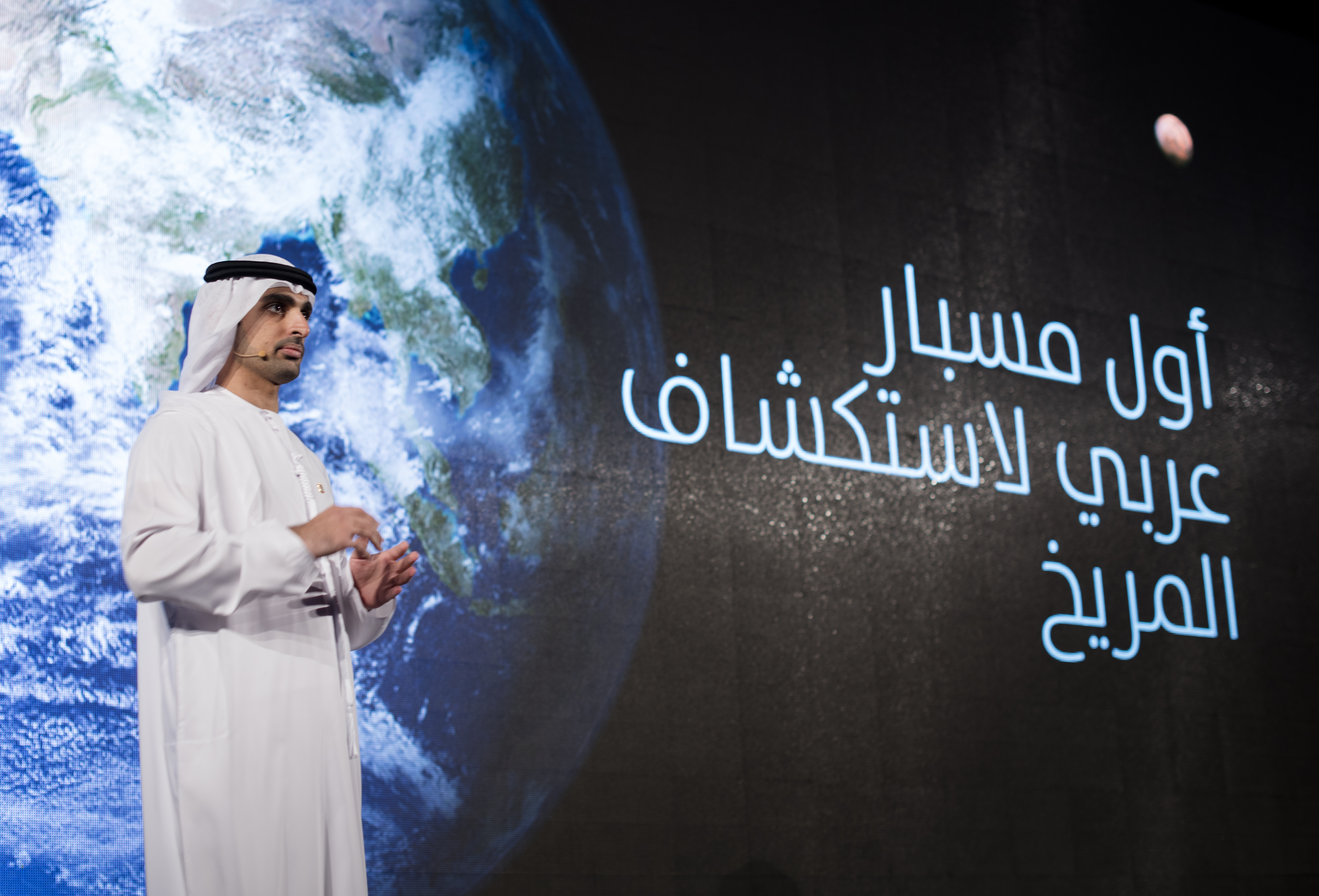 Image taken during the official announcement event at Al Bahr Palace in Dubai